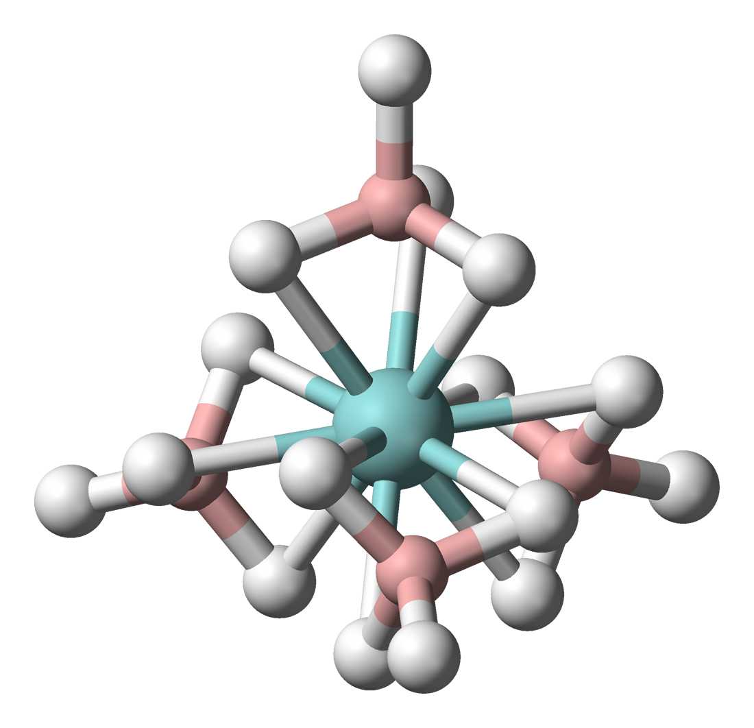 Ball-and-stick model of the zirconium borohydride molecule, Zr(BH4)4